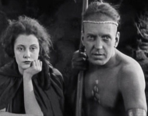 Barbara Bedford and Alan Roscoe in The Last of the Mohicans - cropped screenshot (modified : see source)